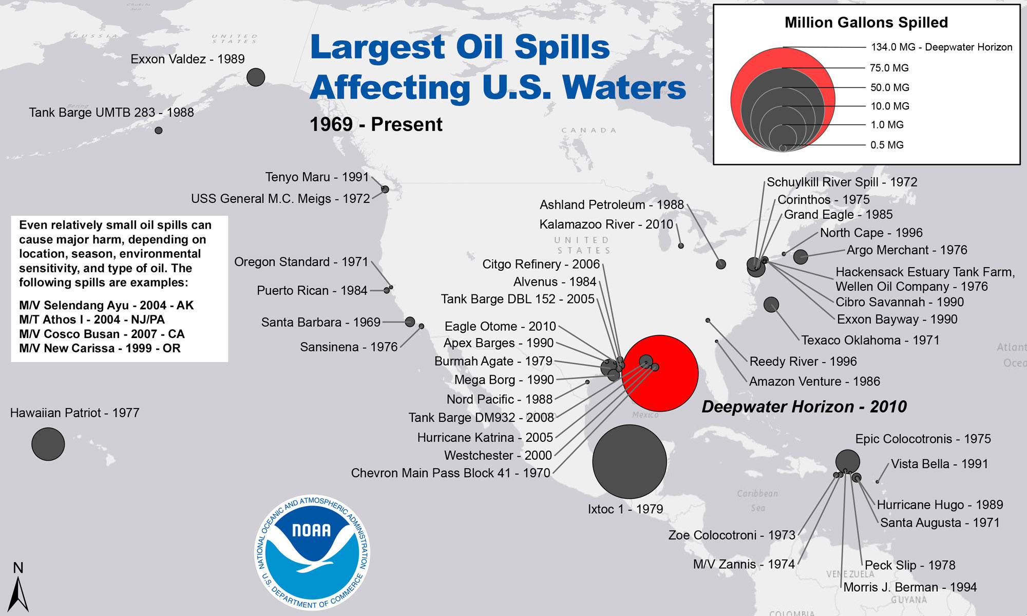 Thousands of oil spills occur in U.S. waters each year, but most are small in size, spilling less than one barrel of oil. Yet since the iconic 1969 oil well blowout in Santa Barbara, California, there have been at least 44 oil spills, each over 10,000 barrels (420,000 gallons), affecting U.S. waters. The largest of which was the 2010 Deepwater Horizon well blowout in the Gulf of Mexico. NOAA's Office of Response and Restoration has created the following graphic listing these spills based on records and information from its Emergency Response Division. While every effort has been made to develop a complete list, there may be additional incidents that NOAA was not involved in responding to and therefore are not represented here. This graphic also is focused on oil spills on or into U.S. navigable waters, which excludes terrestrial and underground spills. Spill volumes may be inexact due to the causes of some incidents, such as fire, sinking, and hurricanes. In addition, even relatively small oil spills can cause major environmental and economic harm, depending on location, season, environmental sensitivity, and type of oil. As a result, this graphic also includes examples of major U.S. oil spills less than 10,000 barrels.